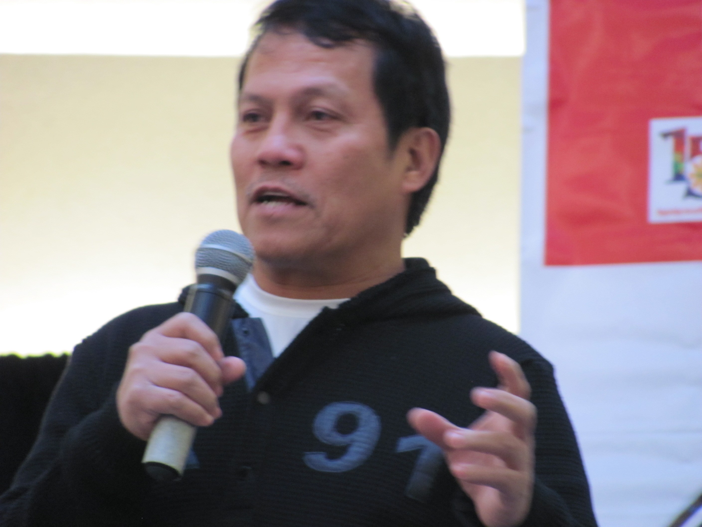 Photographed during a public performance at a stage set up in Lansdowne shopping centre, Richmond, BC in January 2011